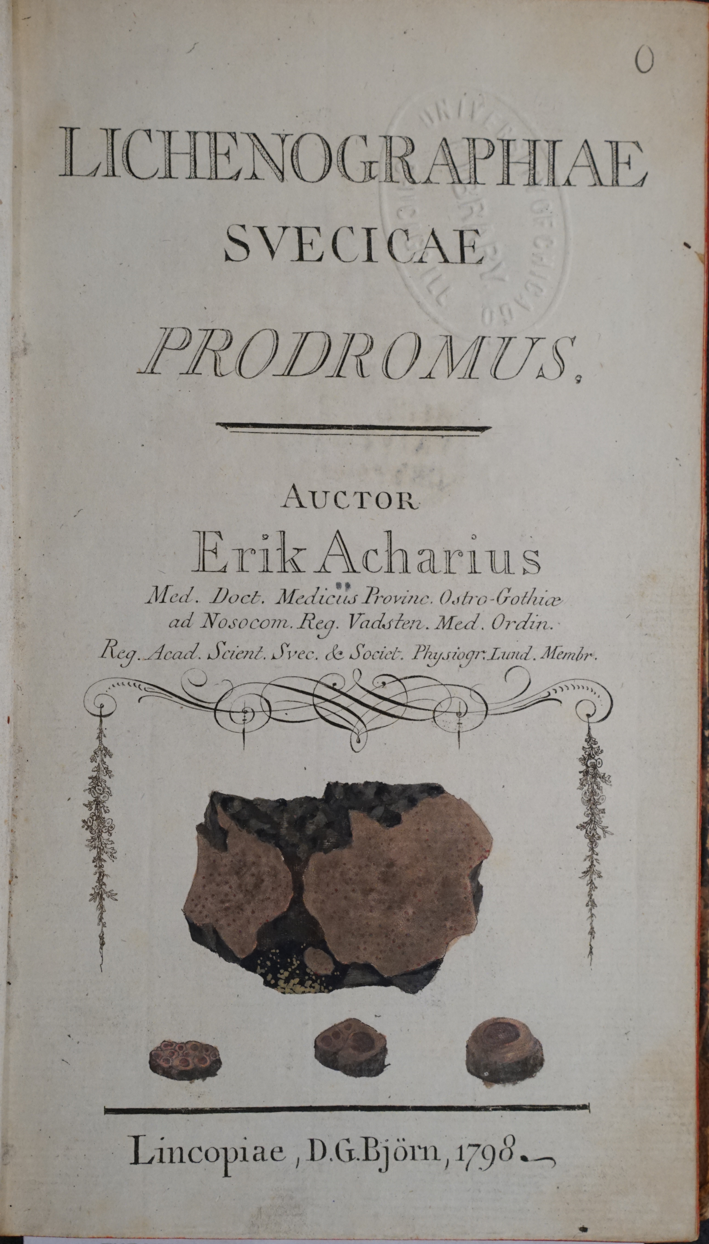 title page of Lichenographiae svecicae